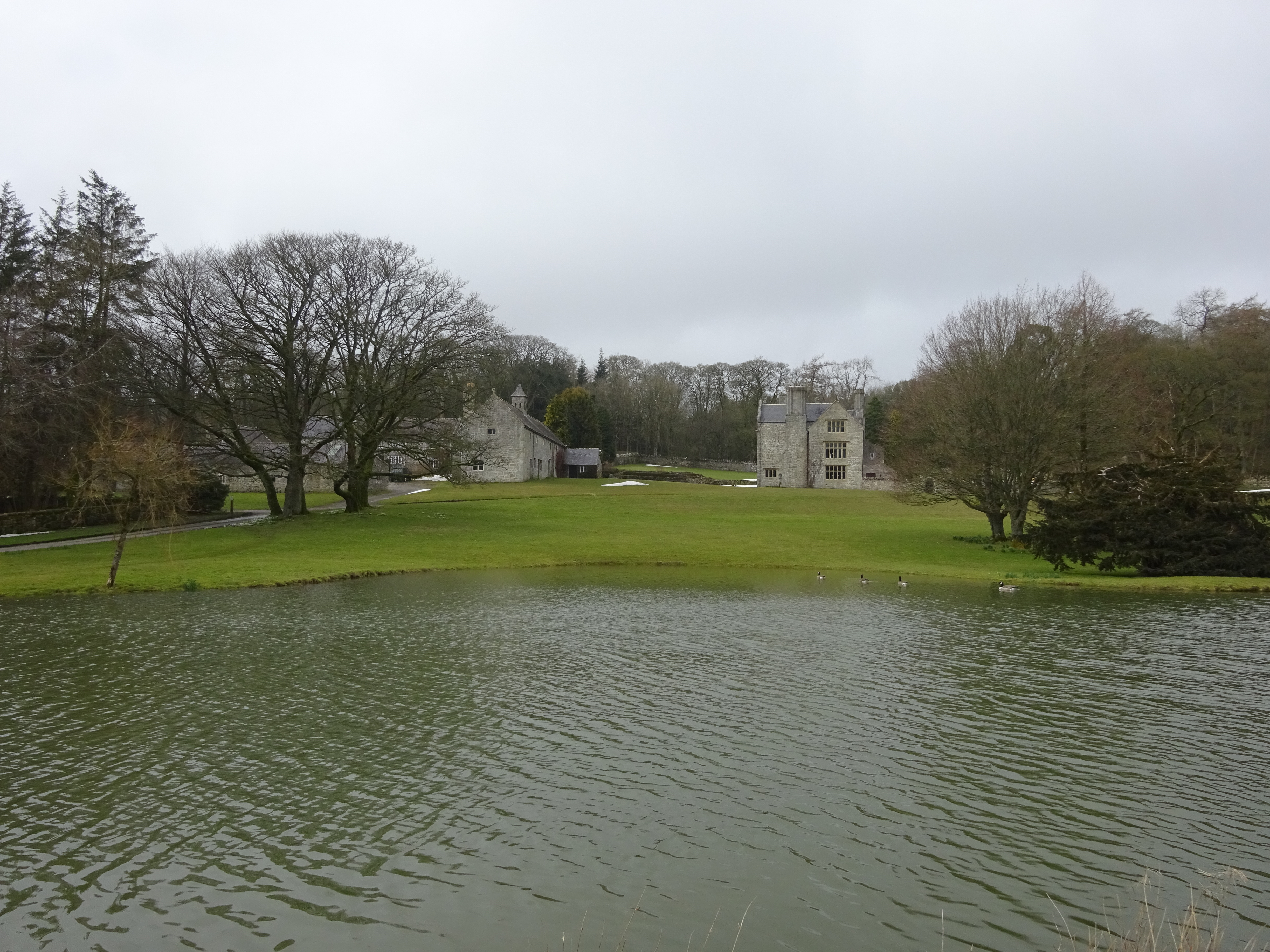 Plas Bod Idris, Denbighshire.